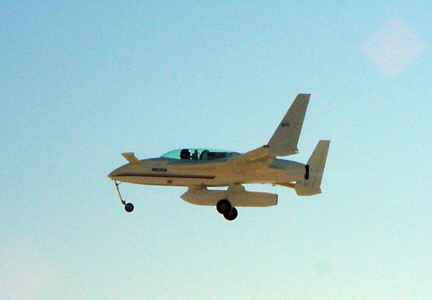 XCOR EZRocket climbs on takeoff from Mojave one week after its maiden flight.